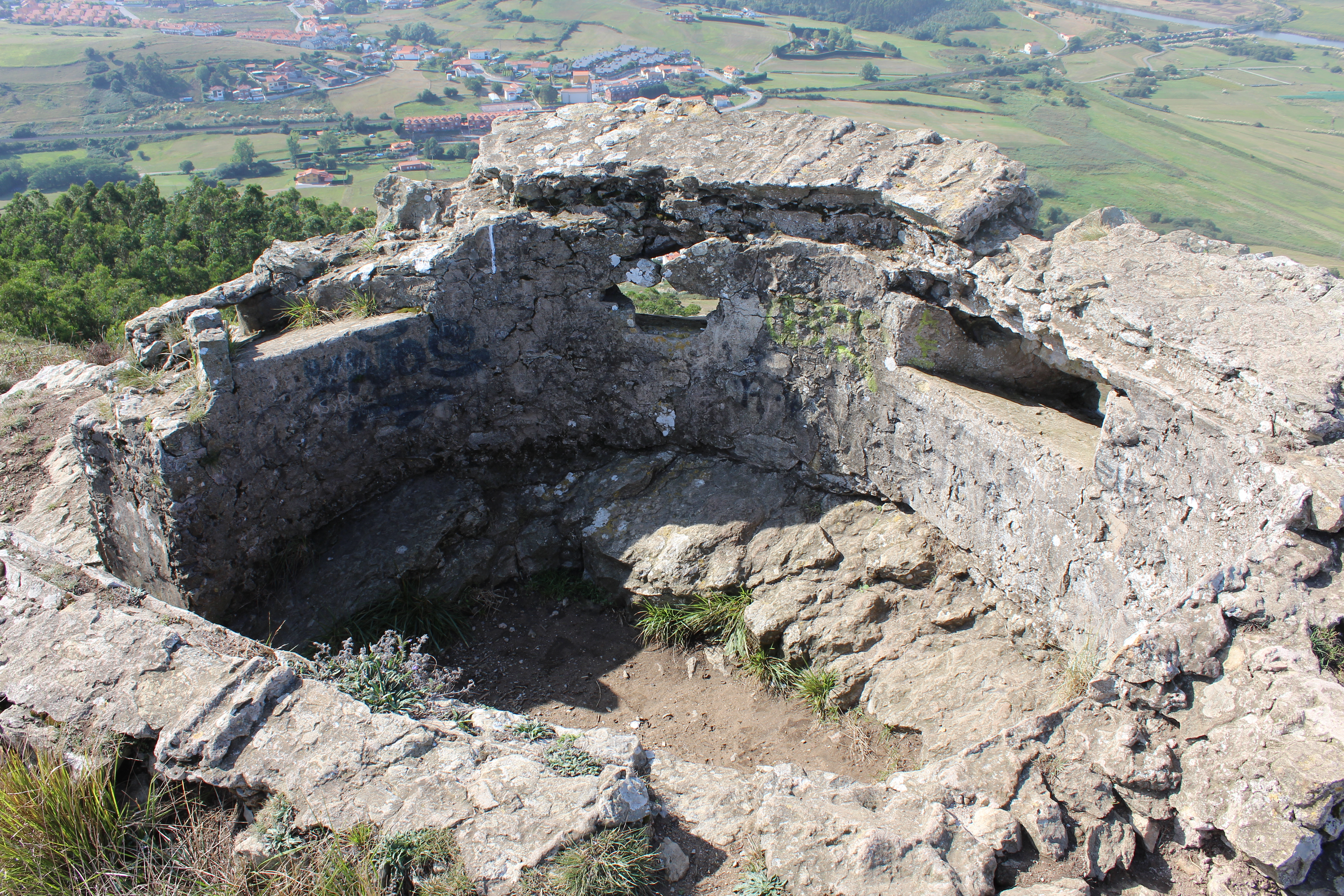 Casamatas para la defensa del monte Tolio, en Mortera, Cantábria, Mortera hechas durante la guerra civil